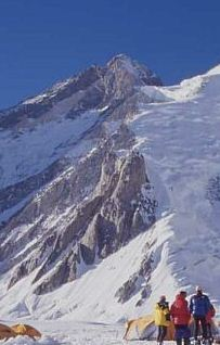 Description: Gasherbrum III